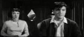 Screenshot of Elvis Presley and Carolyn Jones from the trailer for the film King Creole.